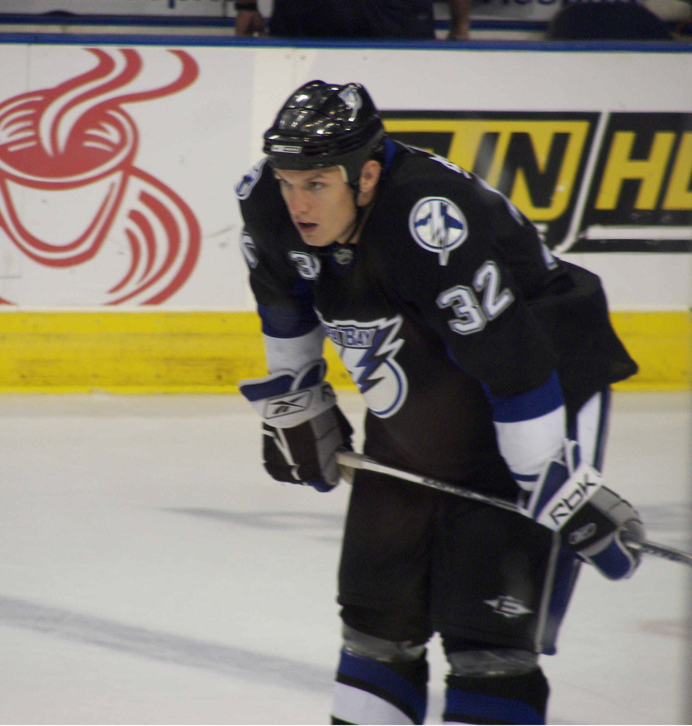 Matt Smaby of the Tampa Bay Lightning during a Lightning vs. Atlanta Thrashers ice hockey game at the St. Pete Times Forum in Tampa, Florida on October 20, 2007.